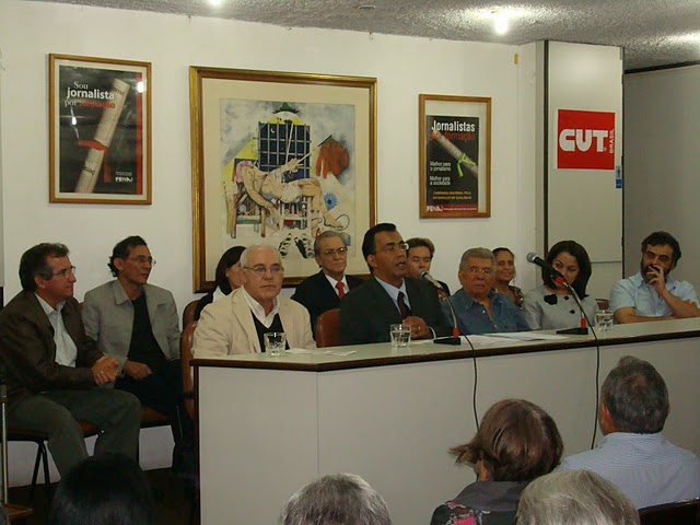 On April 30, 2010, the new board takes possession of the Brazilian Union of Writers for the biennium 2010-2012.